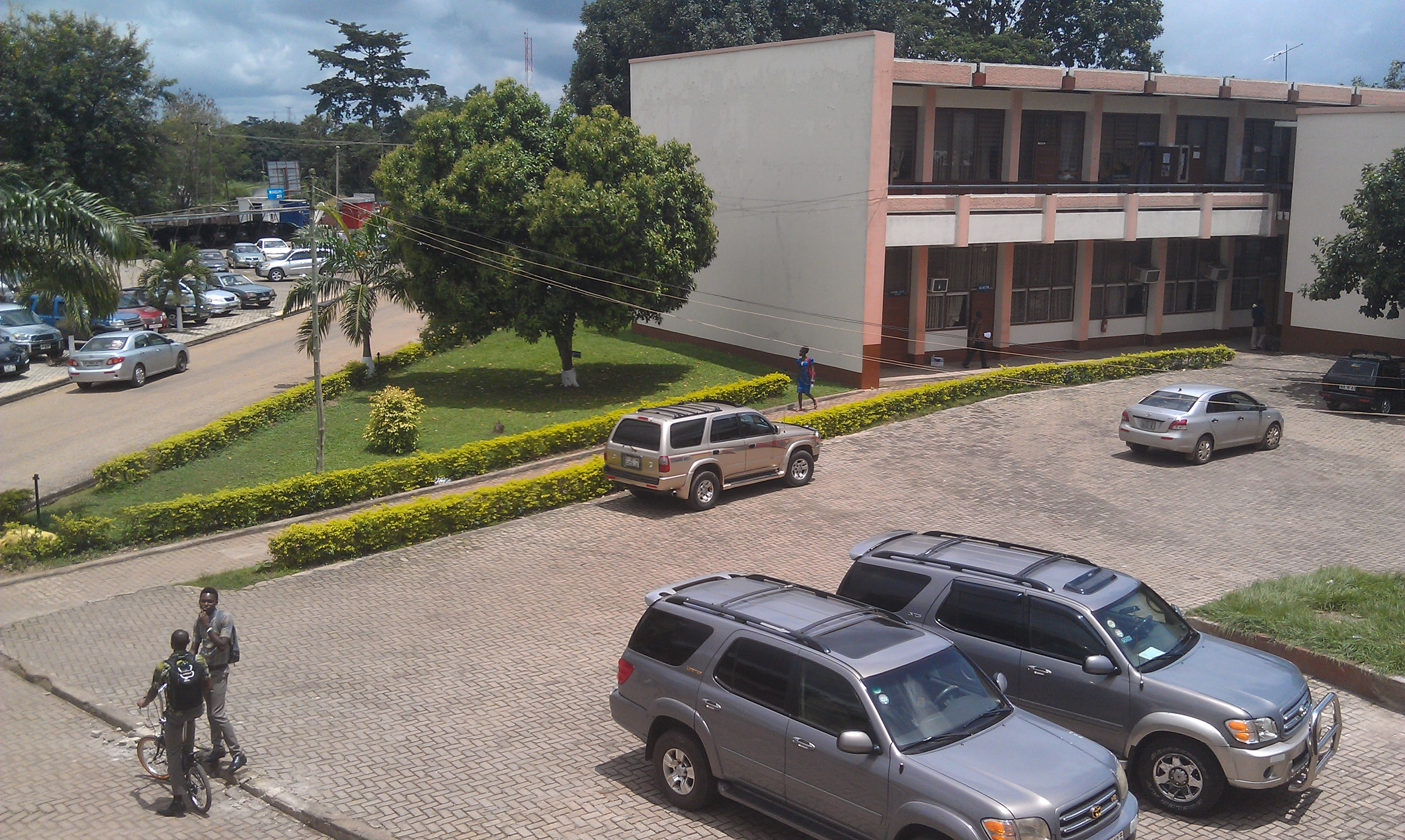 Sunyani Polytechnic, Ghana Campus